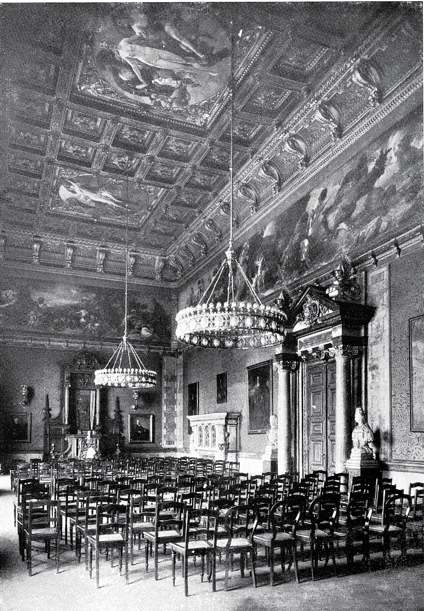 Düsseldorf, Kunstakademie erbaut von 1875 bis 1879 von Hermann Riffart. Die Aula wurde Mitte der 1890er Jahre durch Professor Adolf Schill architektonisch und dekorativ ausgestaltet, Gesamtansicht.jpg